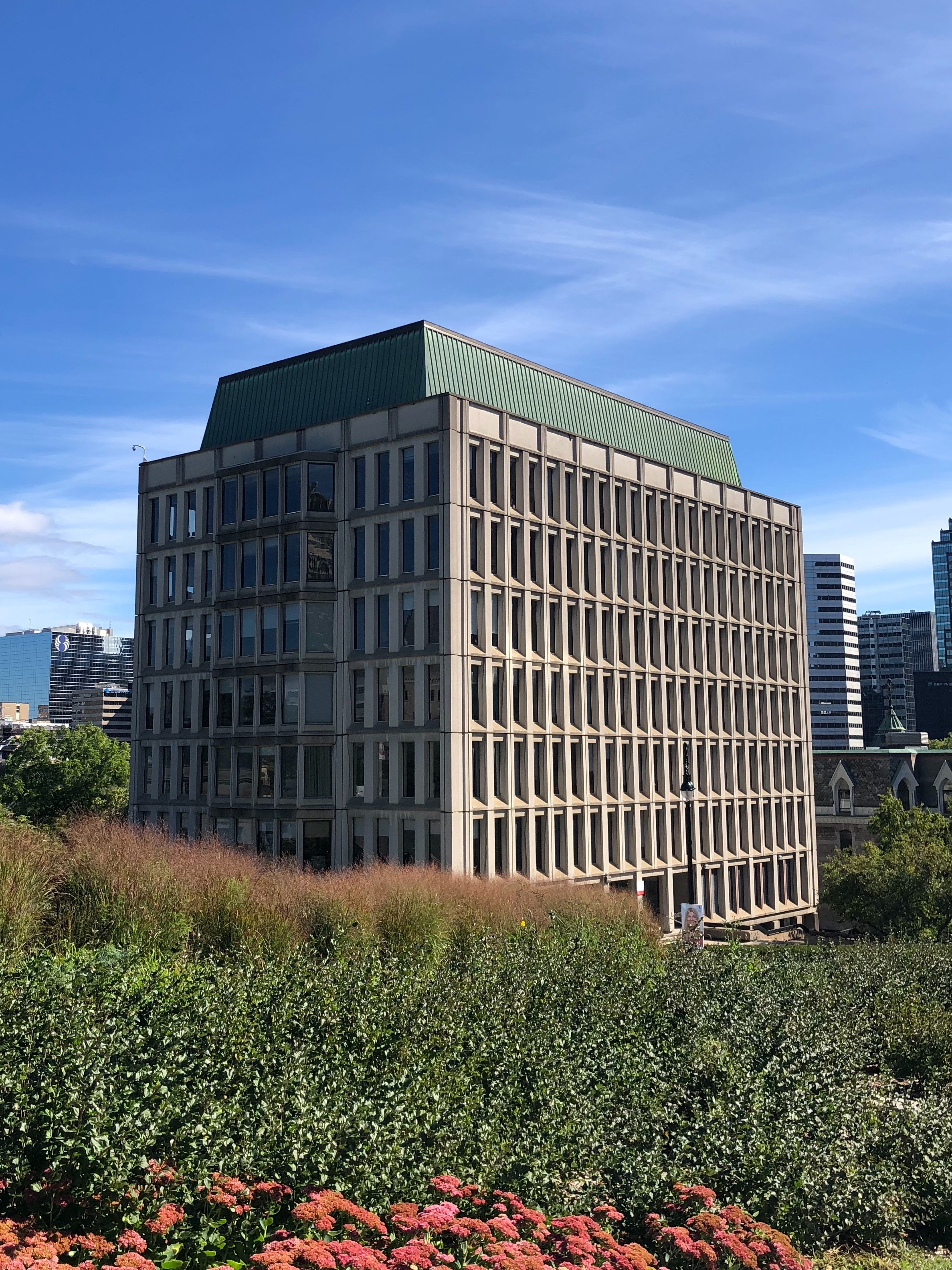 Photograph of the Leacock Building at McGill, as seen from McTavish Street and Dr. Penfield Avenue.